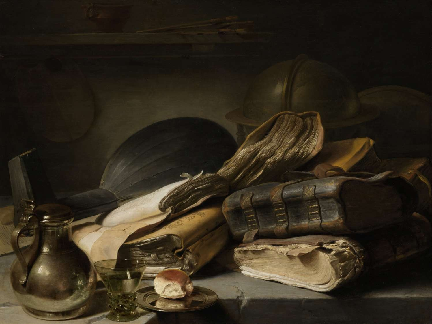 Vanitas still life with books, a pewter jug, a wineglass, a pewter plate with a piece of bread, a lute and two globes. Left, on the wall a palette is visible.